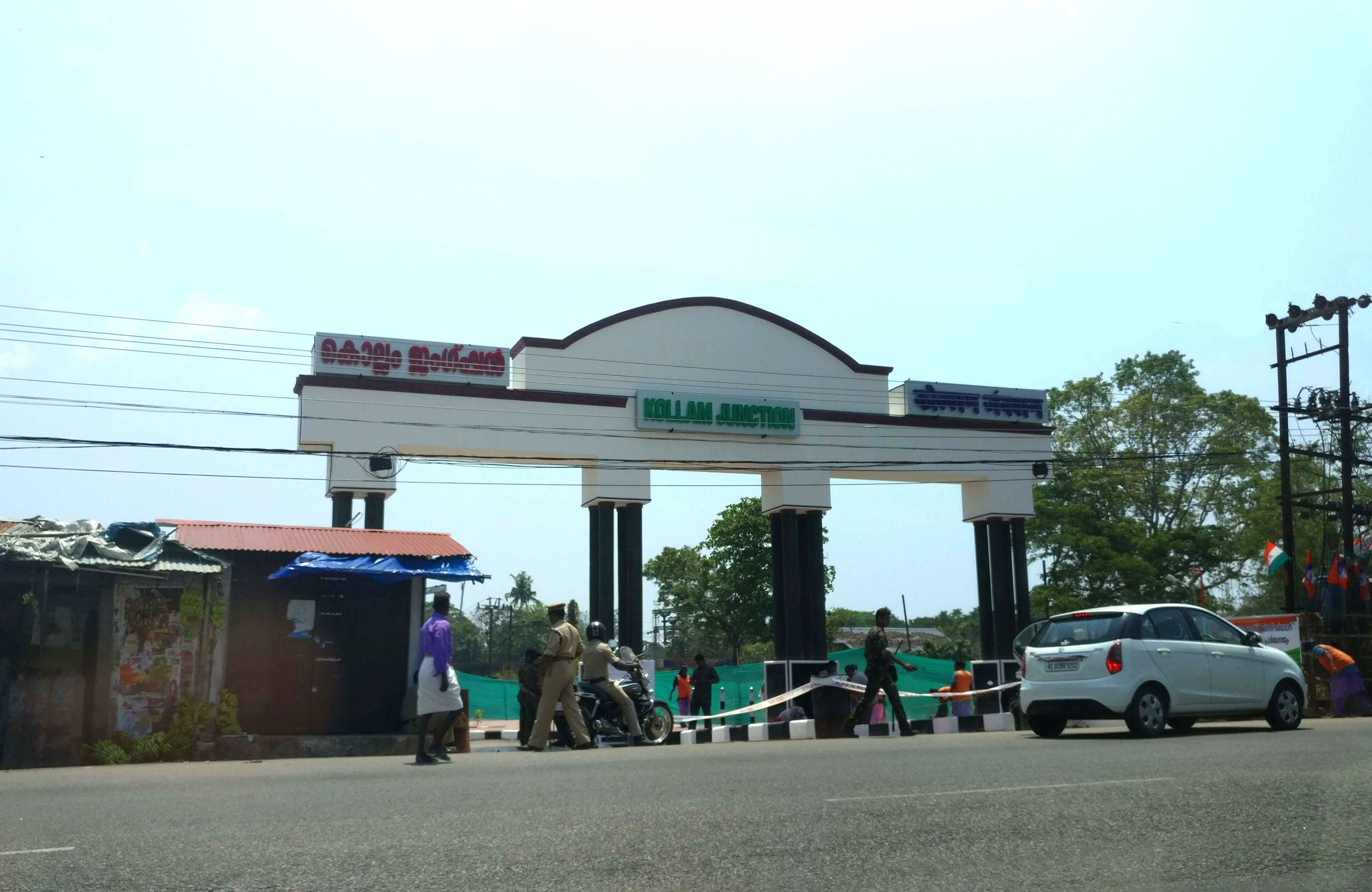 Kollam Junction railway station is the second largest railway station in Kerala in terms of area and number of platforms